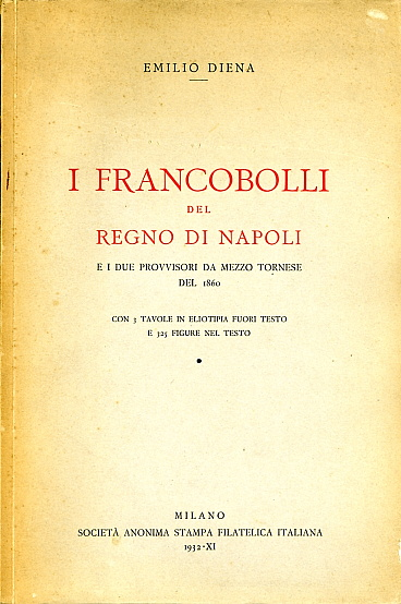 'I Francobolli del Regno di Napoli', book by Emilio Diena on stamps of Naples, 1932.